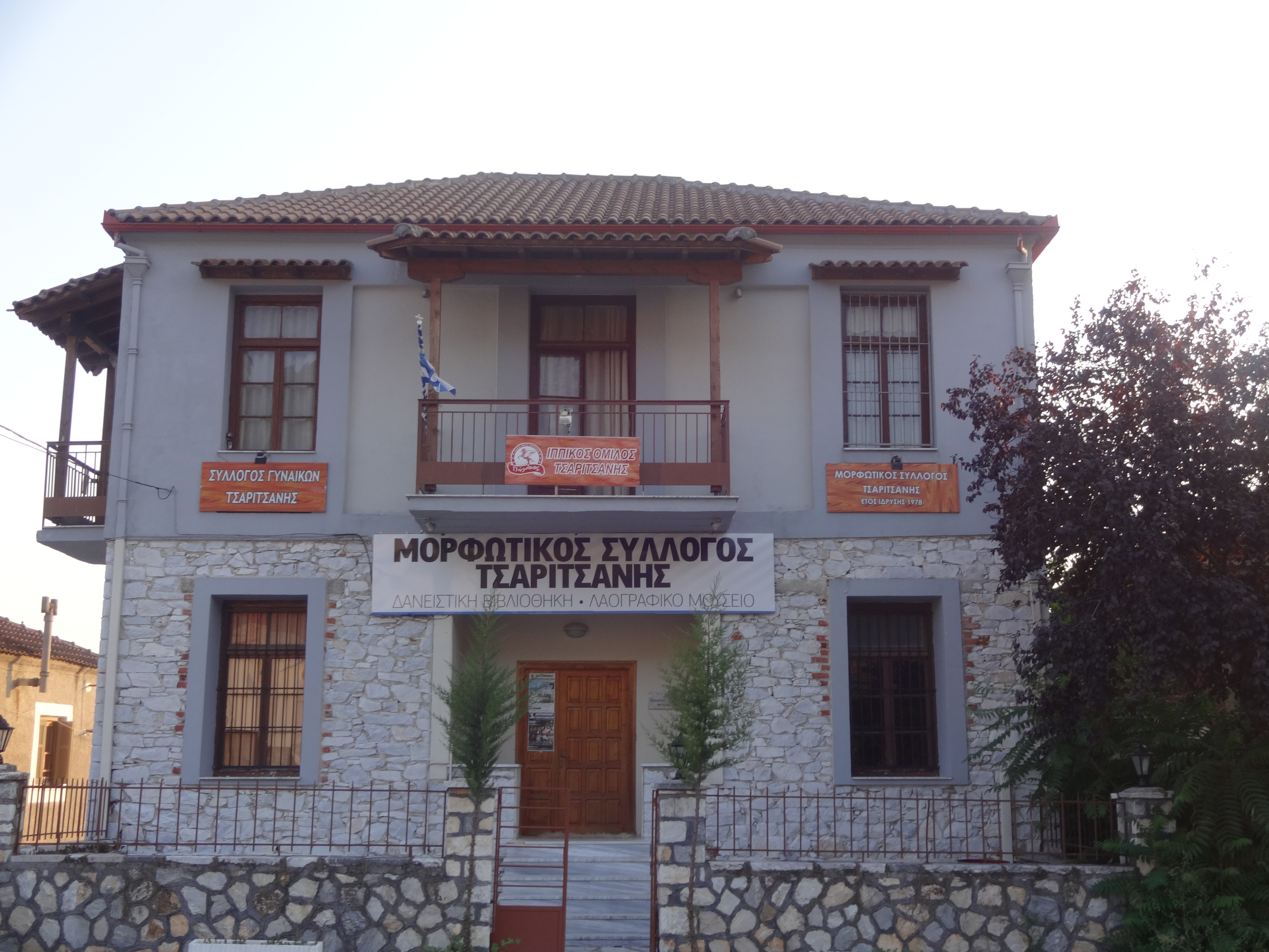 Tsaritsani, Greece. Ex bishop"s building. Today cultural center.